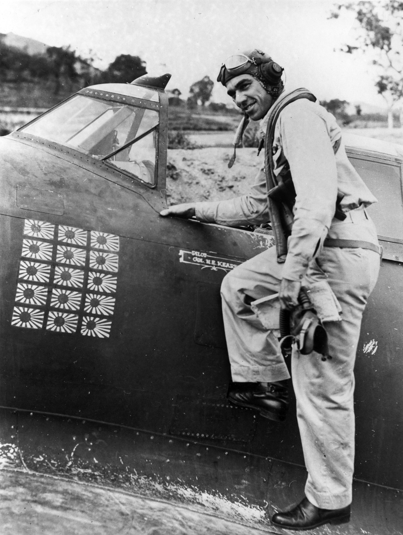 A U.S. Army Air Force Medal of Honor recipient Col. Neel E. Kearby with his Republic P-47 Thunderbolt showing 15 "kills".